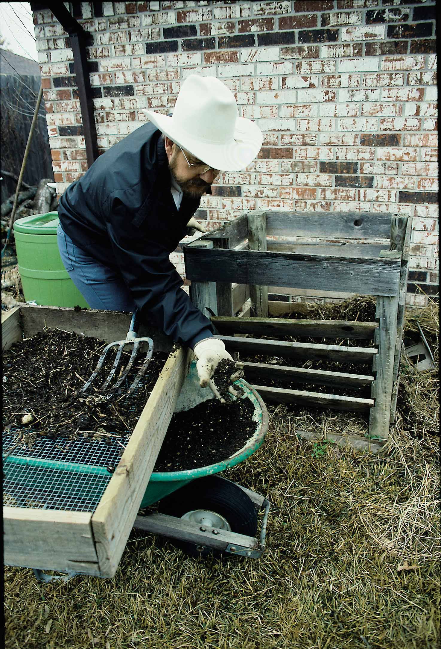 A homeowner sifts soil made from his compost bin in background. Composting is an excellent way to recycle household and yard wastes.